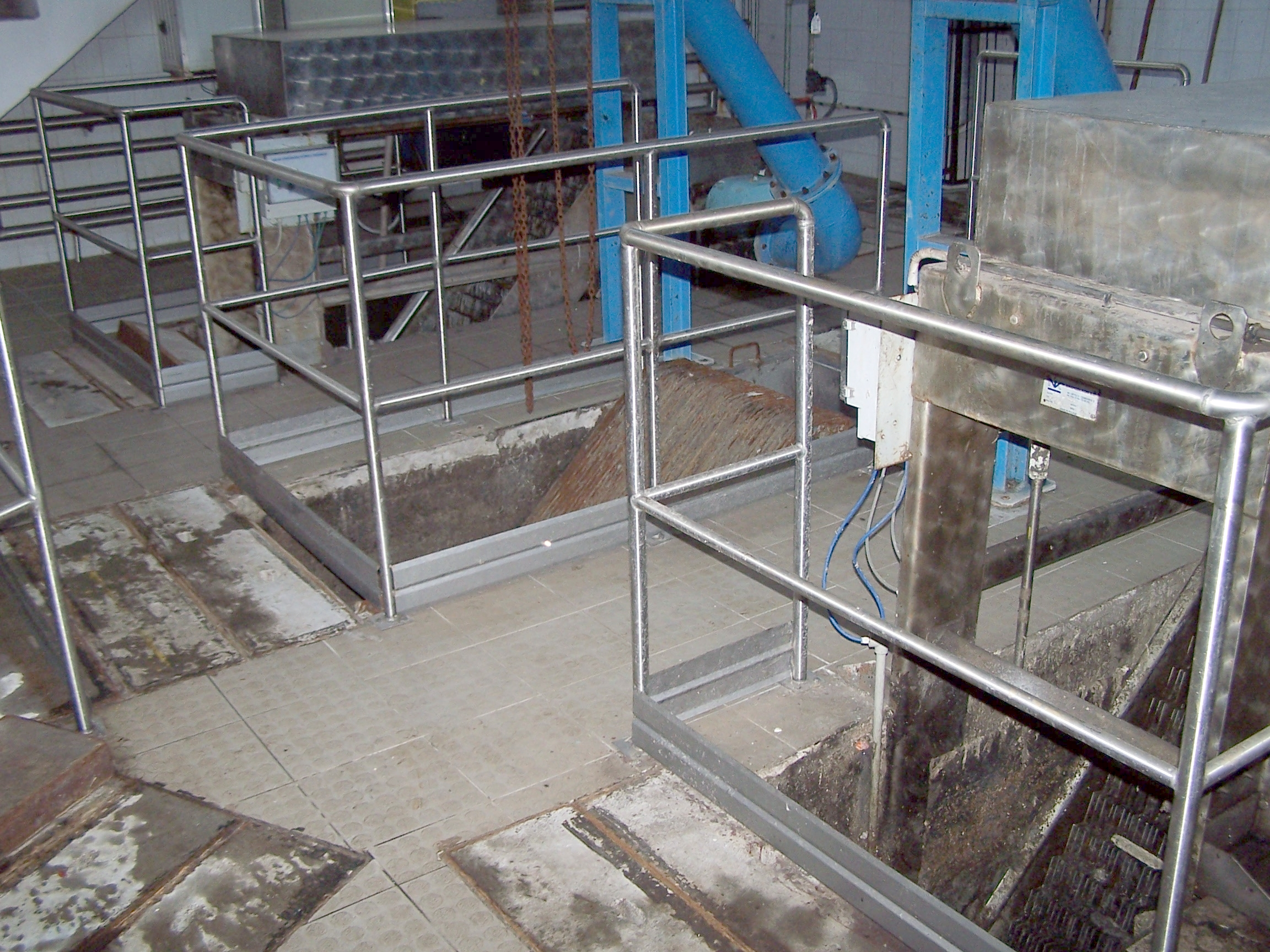 e=Part of sewage treatment plant in Wieluń